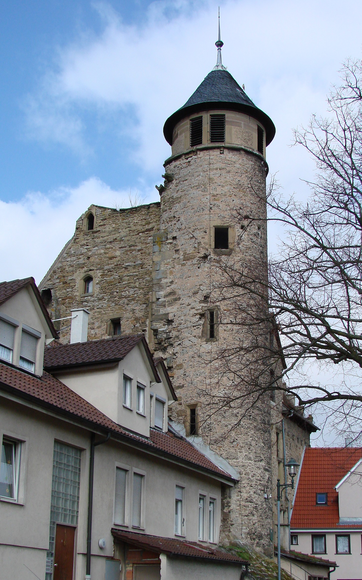 Bönnigheim, Ganerbenburg, 12th century, destroyed and rebuilt in the 16th century, partially destroyed in 1679